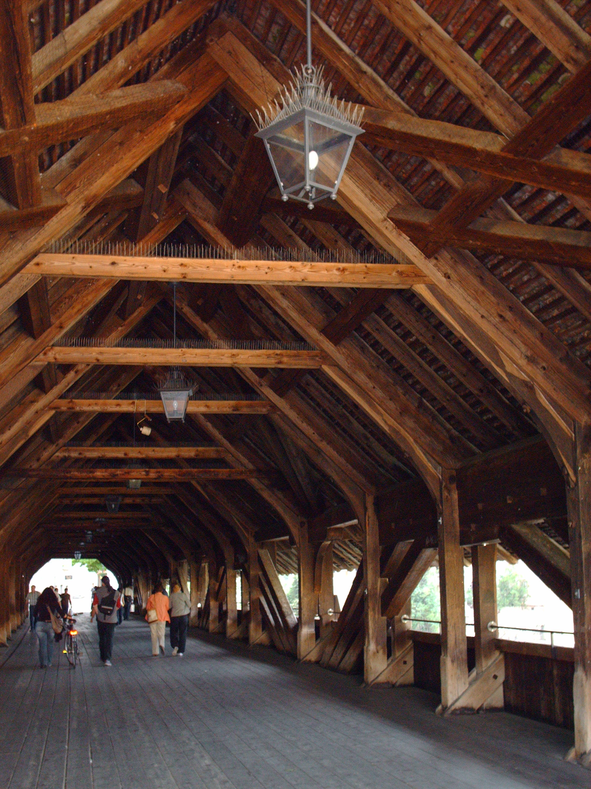 Covered wooden bridge in Olten, Switzerland (built 1803) from inside